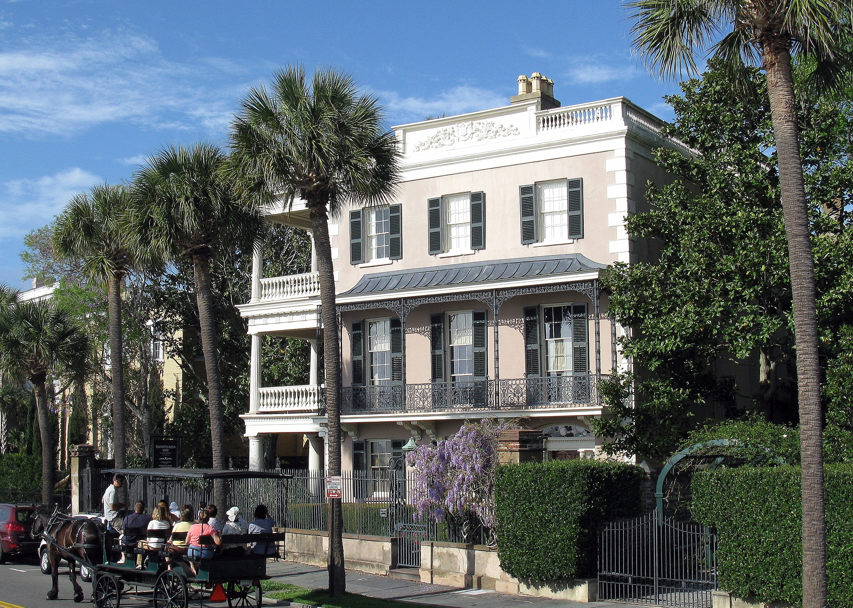 Edmondston-Alston House in Charleston (S.C.) with carriage tour in front.